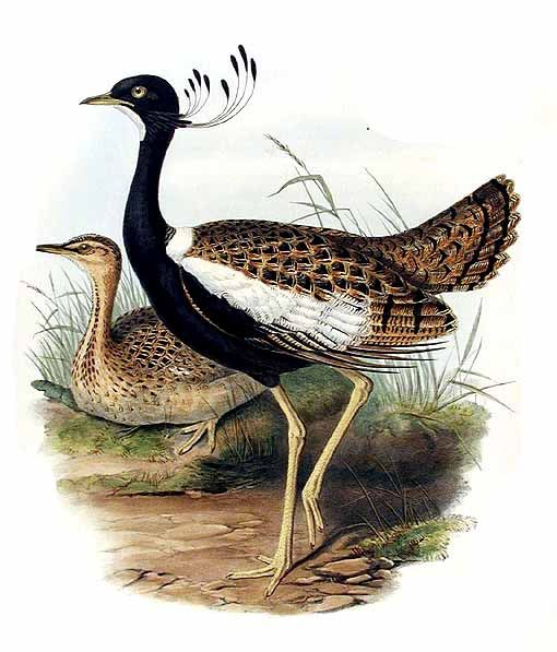 Eupodotis indica (= Sypheotides indica)